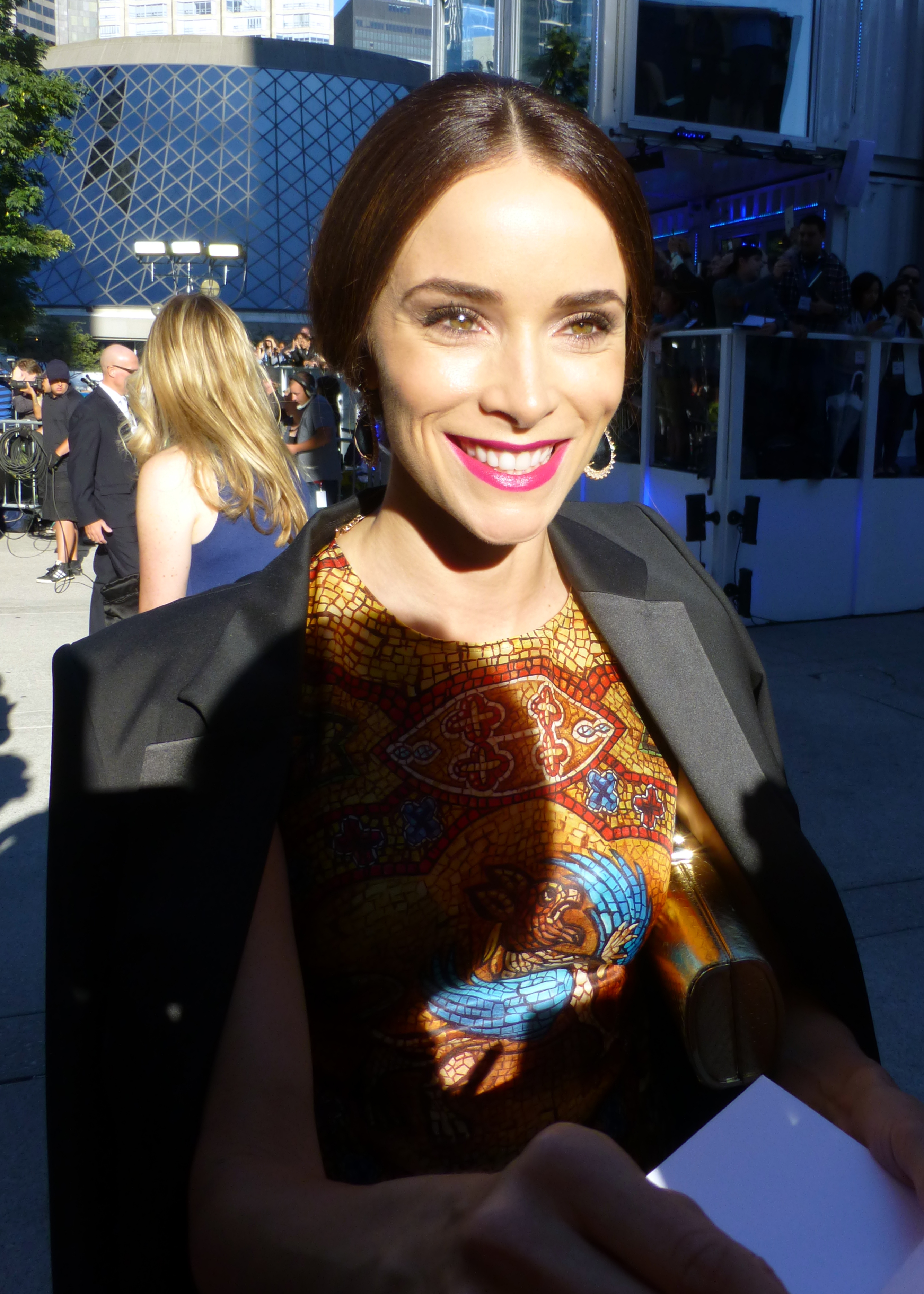 Abigail Spencer at the premiere of This Is Where I Leave You, 2014 Toronto Film Festival